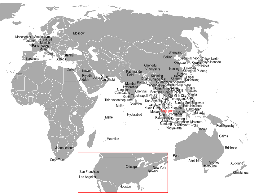 Direct international flights with SIN